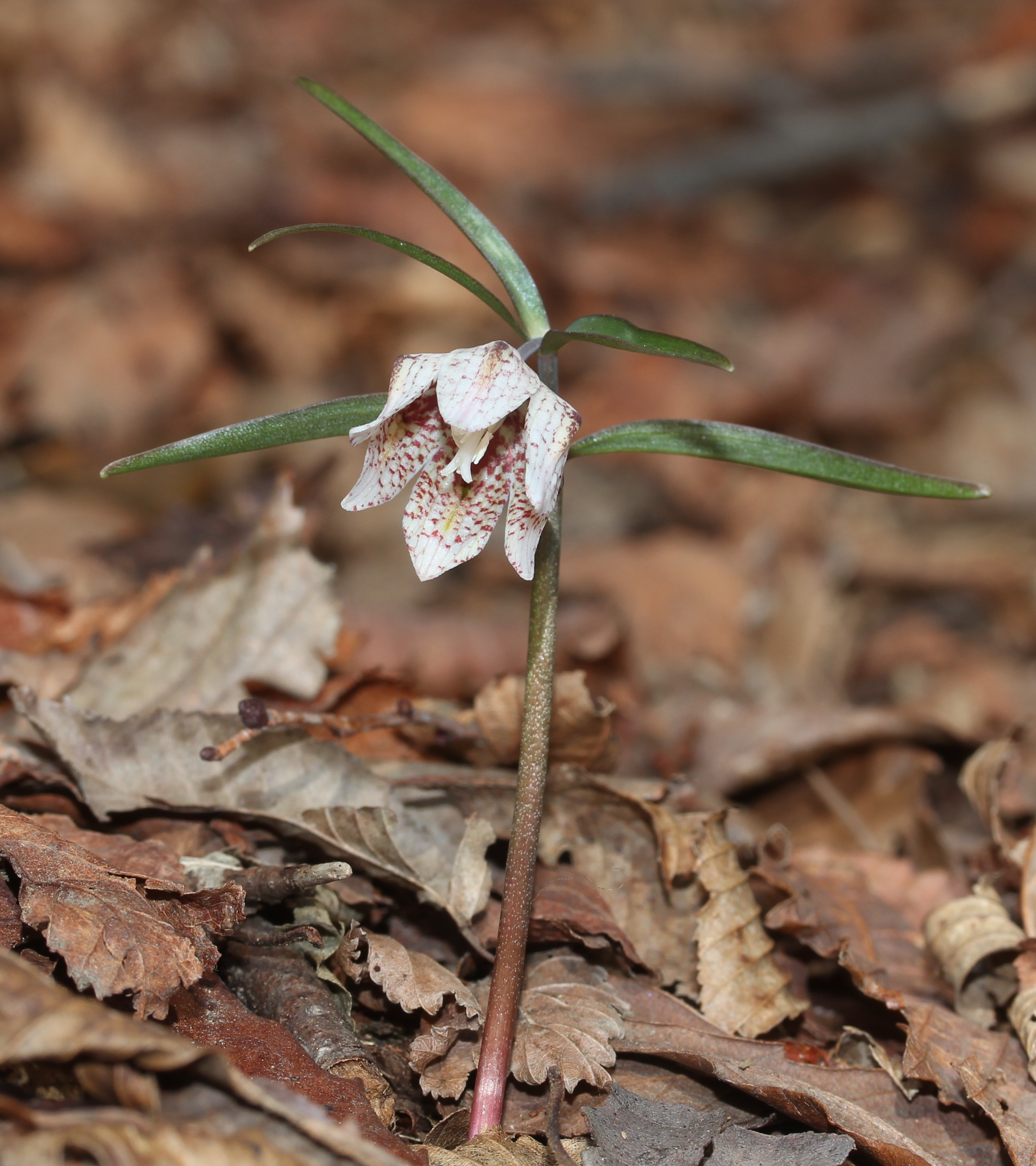 Fritillaria japonica in Mount Ryu, Inabe, Mie prefecture, Japan.